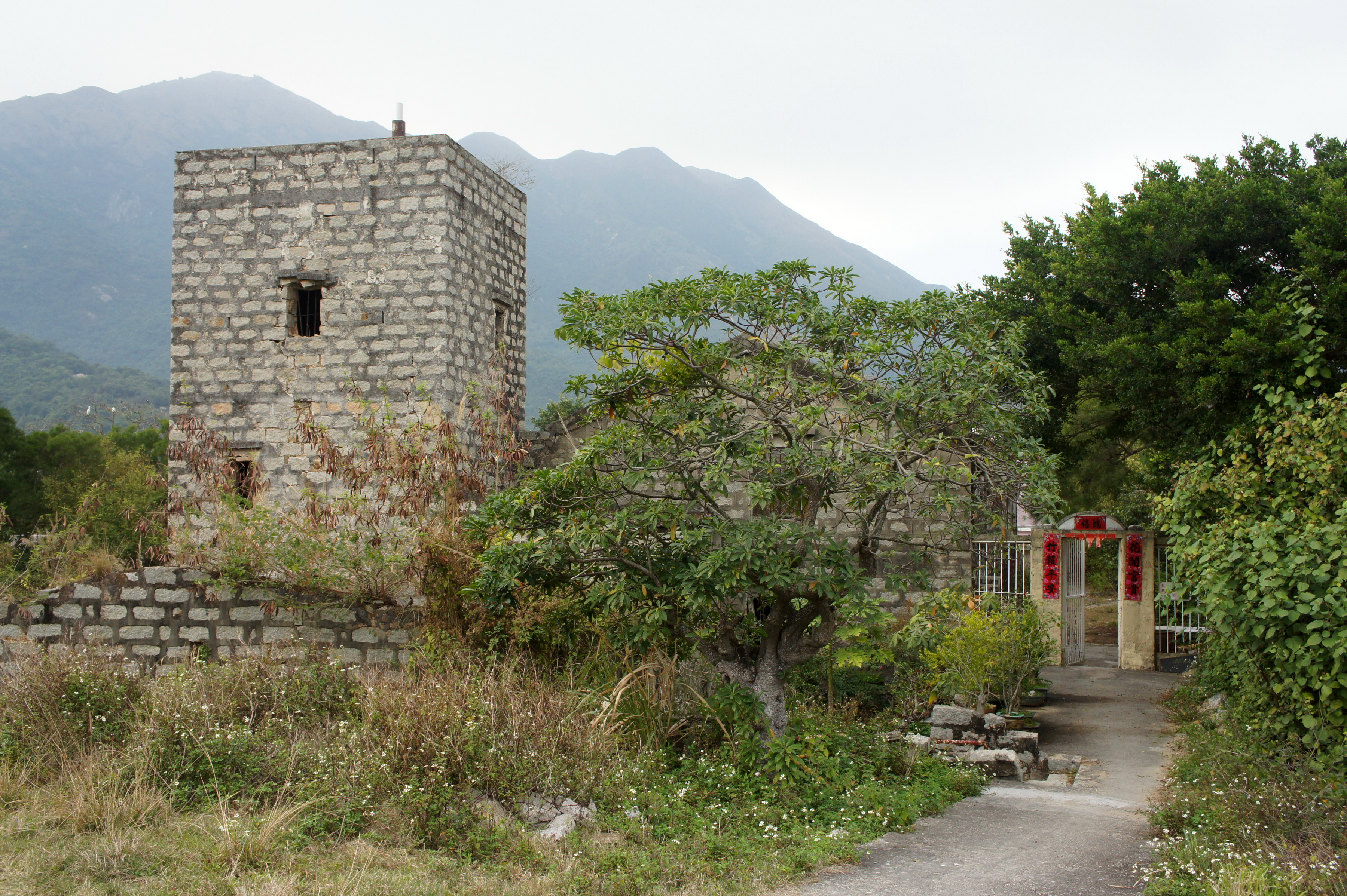 Yuen's Mansion, Mui Wo, Lantau Island. (Grade II historic buildings)